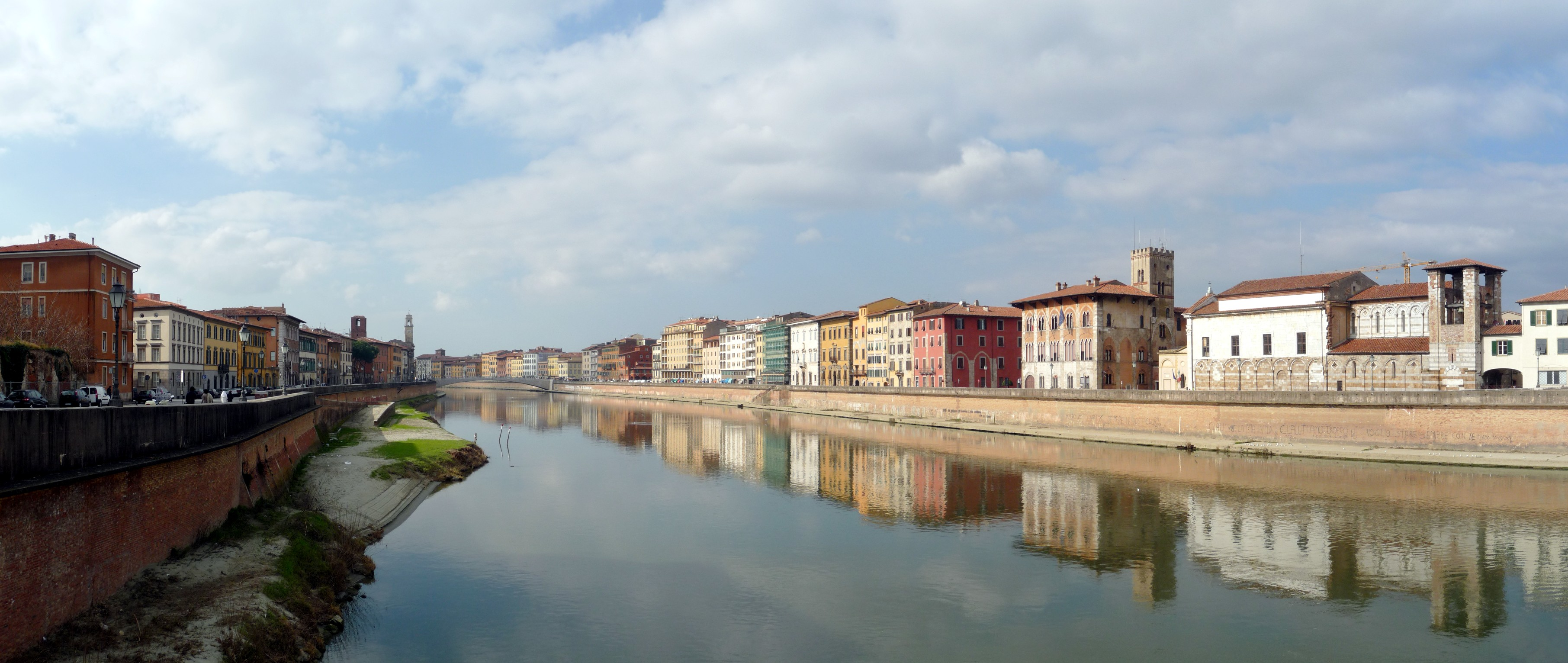 View of the Arno River in Pisa, Italy, from Ponte della Fortezza This image was created with Hugin.